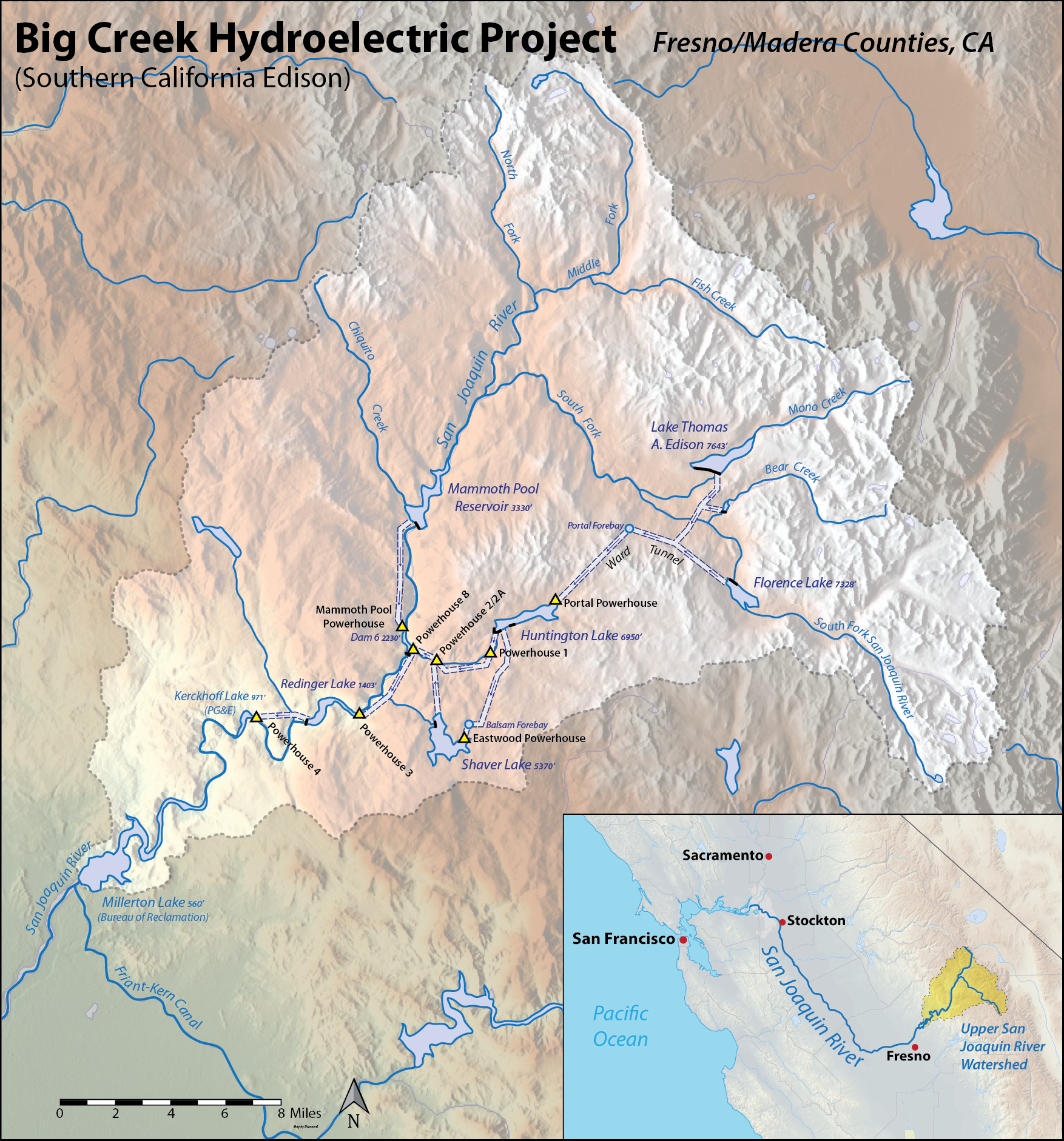 Map showing the Big Creek Hydroelectric Project major facilities in Fresno and Madera County, California Created by myself using Adobe Photoshop and Illustrator, using data from the USGS National Map.